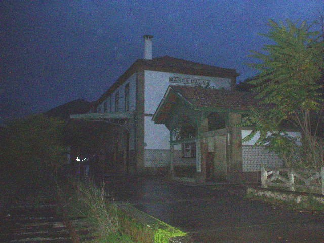 Barca d'Alva train station, Vila Nova de Foz Côa, Portugal.